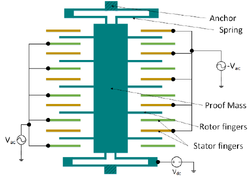 شتاب‌سنج خازنی شانه‌ای